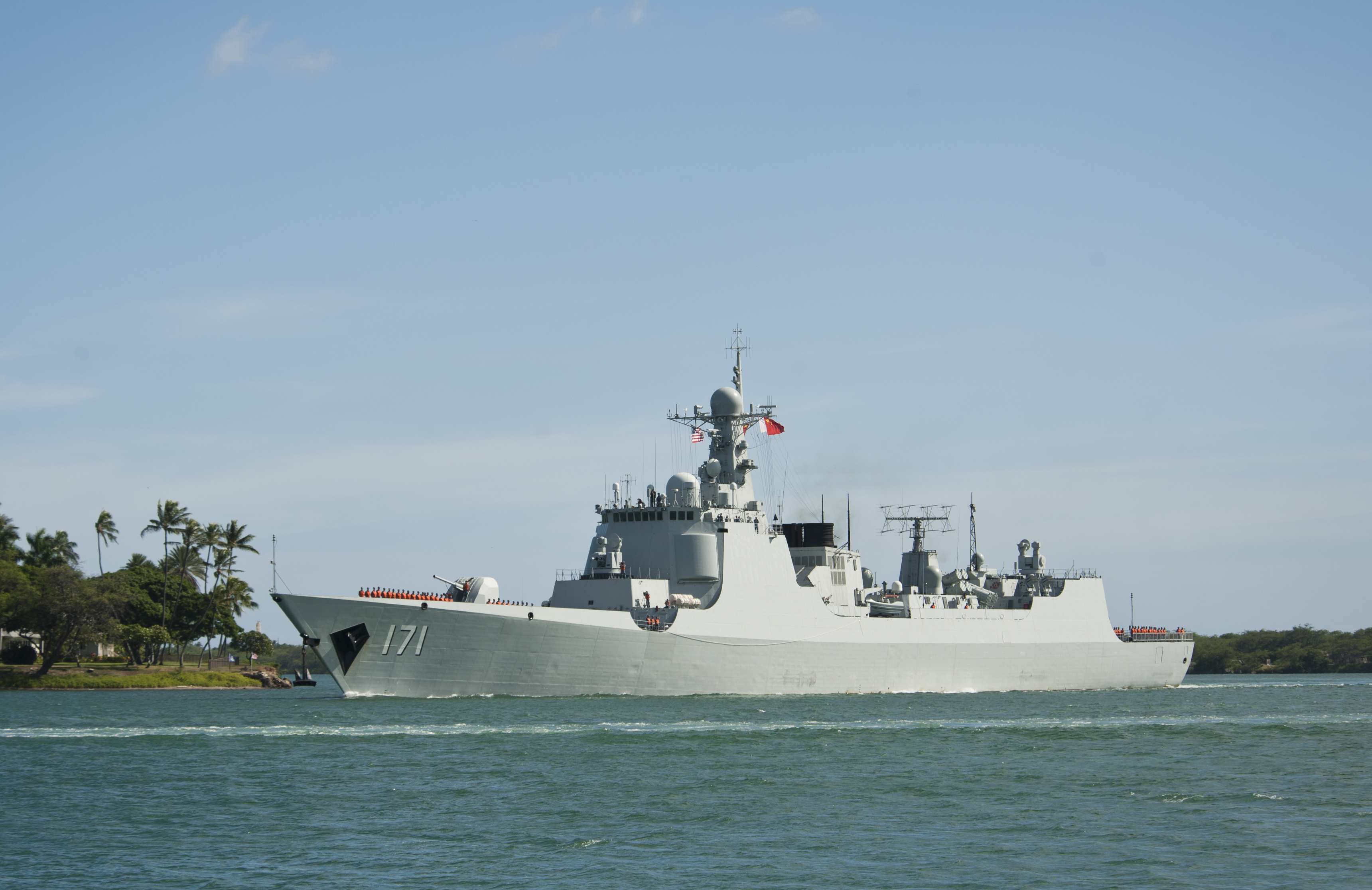 The People's Liberation Army (Navy) ship PLA(N) Haikou (DD 171) returns to port after participating in the at-sea phase of Rim of the Pacific (RIMPAC) Exercise 2014.